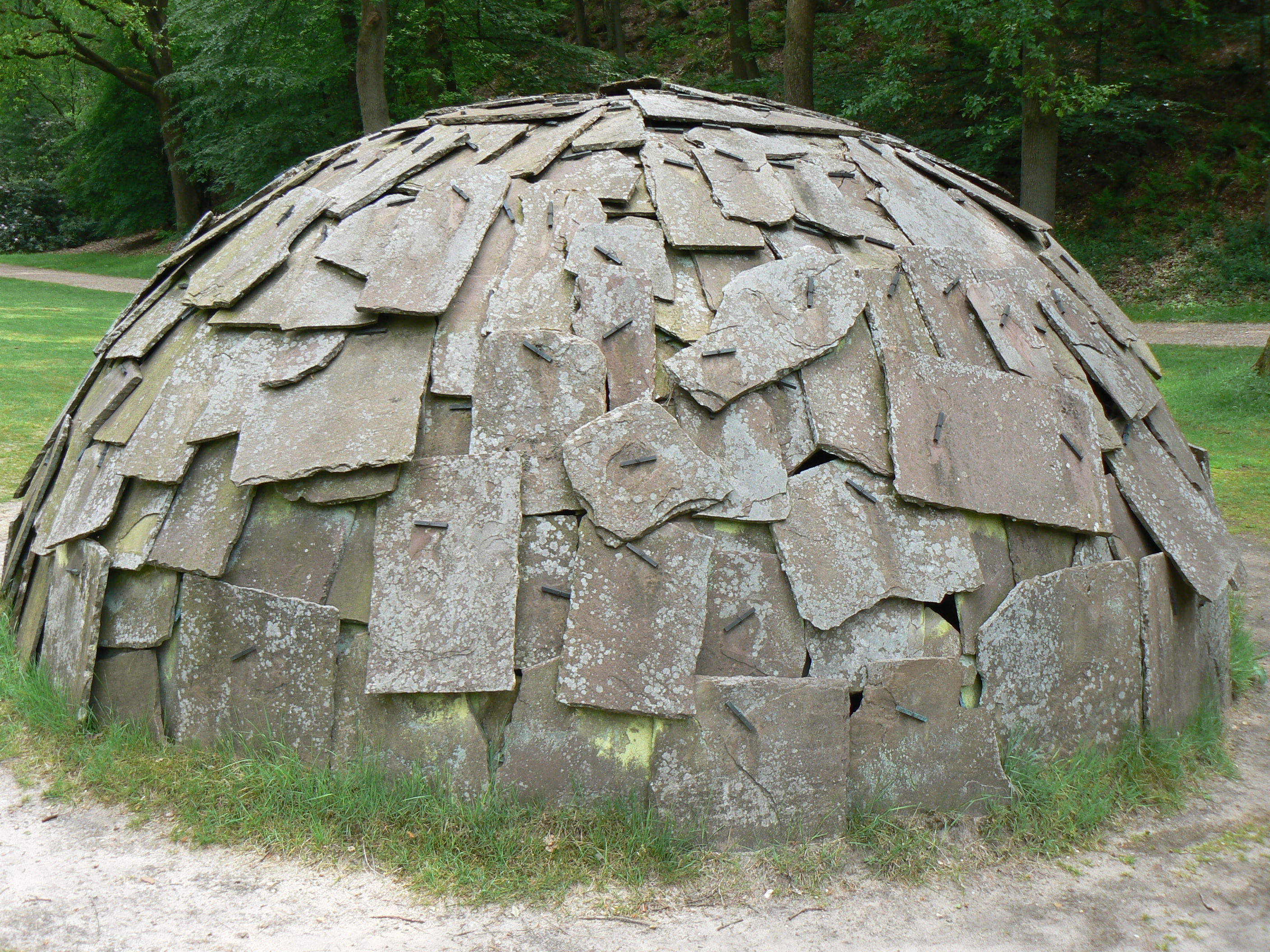 sculpture Igloo di pietra (1982) by Mario Merz in KMM sculpturepark/The Netherlands